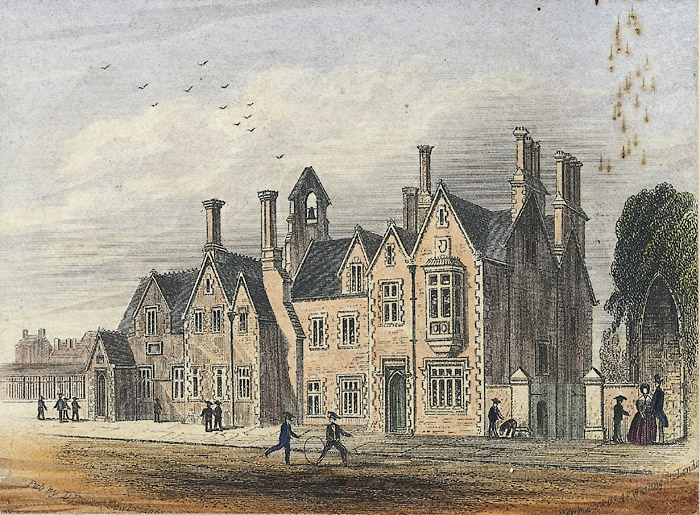 A view of Cowbridge Free School with children playing with a hoop in the yard outside the school.